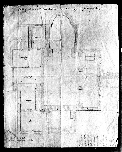 Maastricht-Heer, the Netherlands. Architectural drawing of the old parish church in Heer by Mathias Soiron (1786). The church was demolished in 1788 to make room for a new church designed by Soiron. Only the medieval tower was kept (collapsed in 1890 but partly restored).